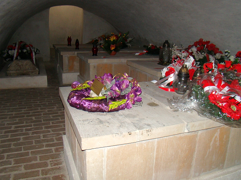 Sarcophagus with body of Aleksander Fredro